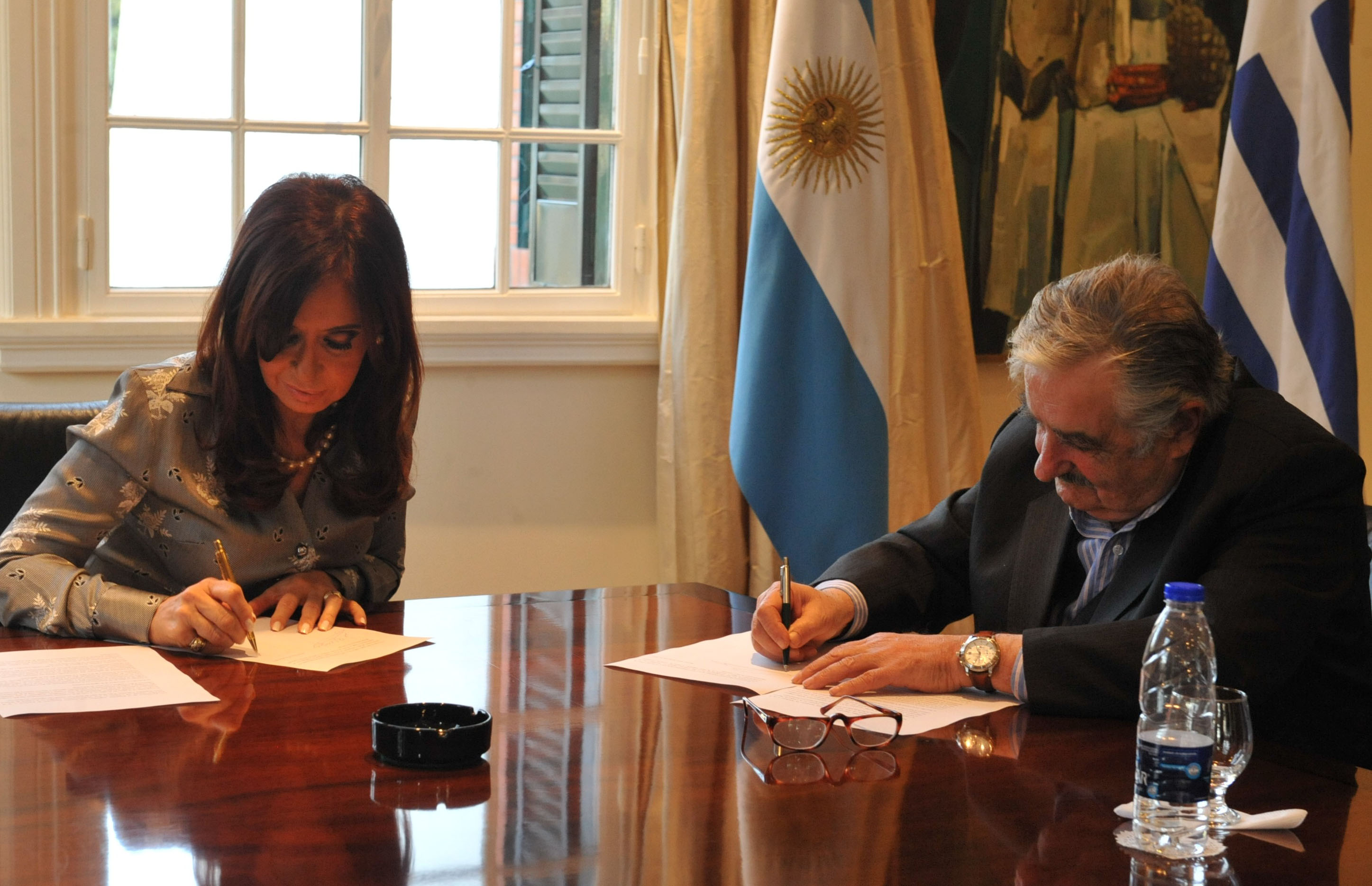 Argentina and Uruguay presidents sign the joint monitor of Rio Uruguay agreement